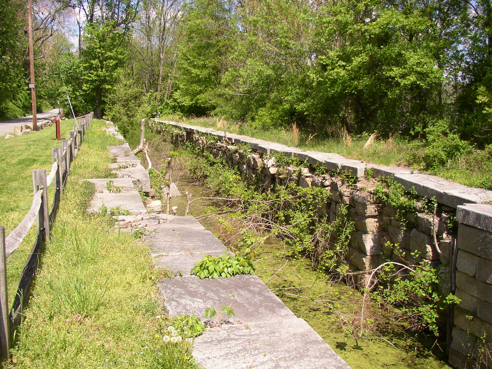 Lock 9 on the Tidewater Canal at Lapidum, Maryland. Photo added to illustrate that article